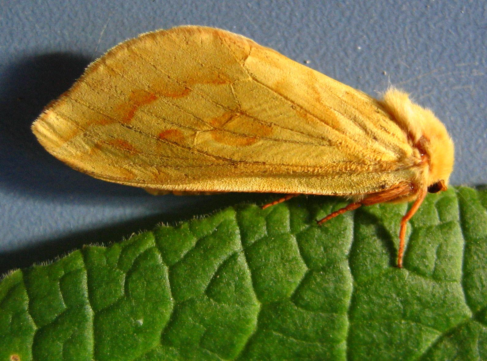 Hepialus humuli, female, Hepialidae, Lepidoptera, Rangsdorf, Brandenburg, Germany